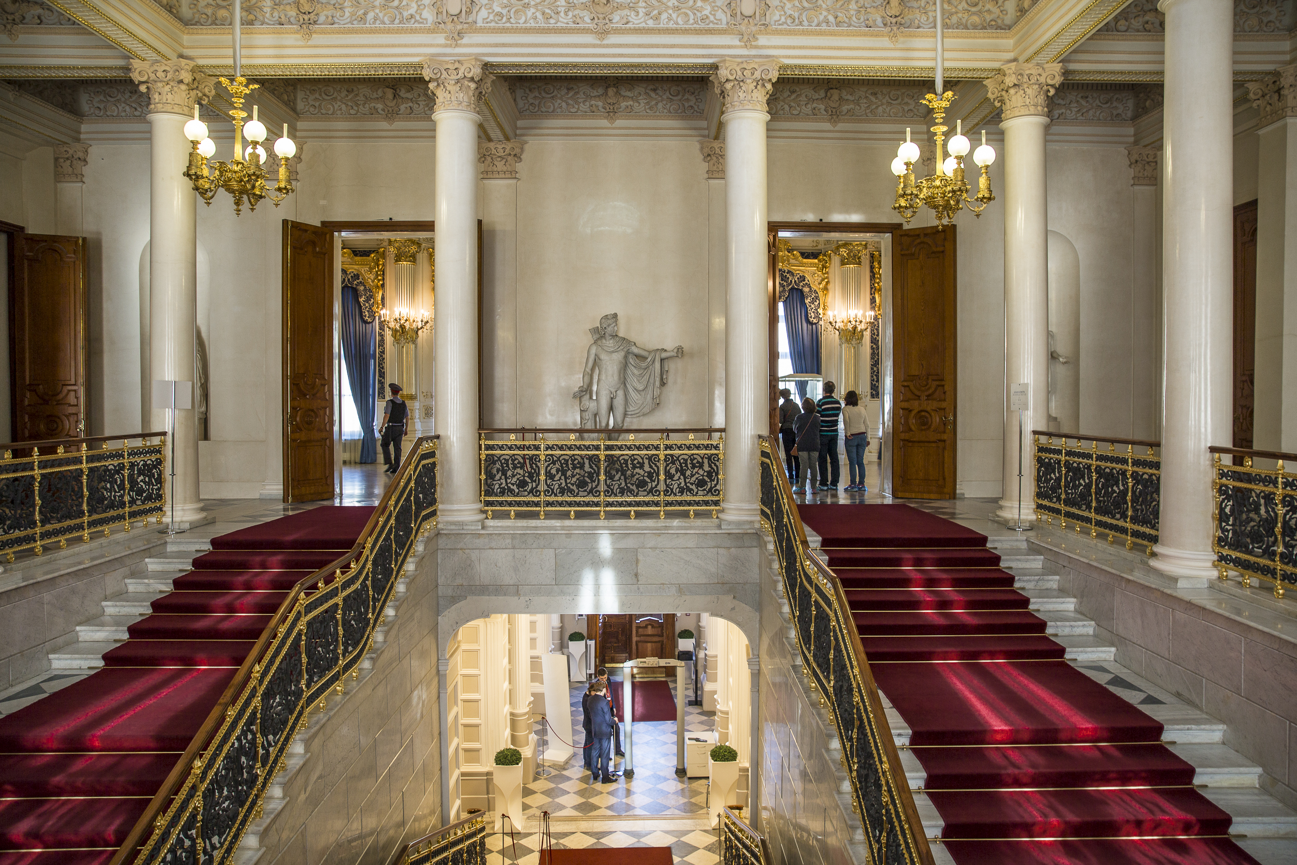 The Fabergé museum's collection contains the world's largest collection of works by Carl Fabergé, including nine of the famous Imperial Easter Eggs.